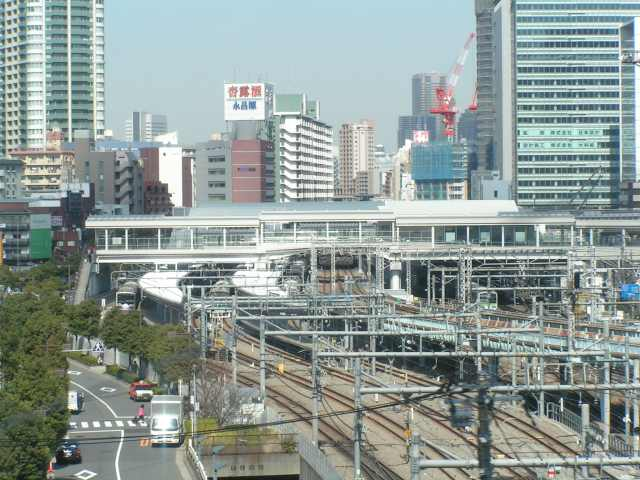 Full view of Osaki Station (Taken from Shinkansen)